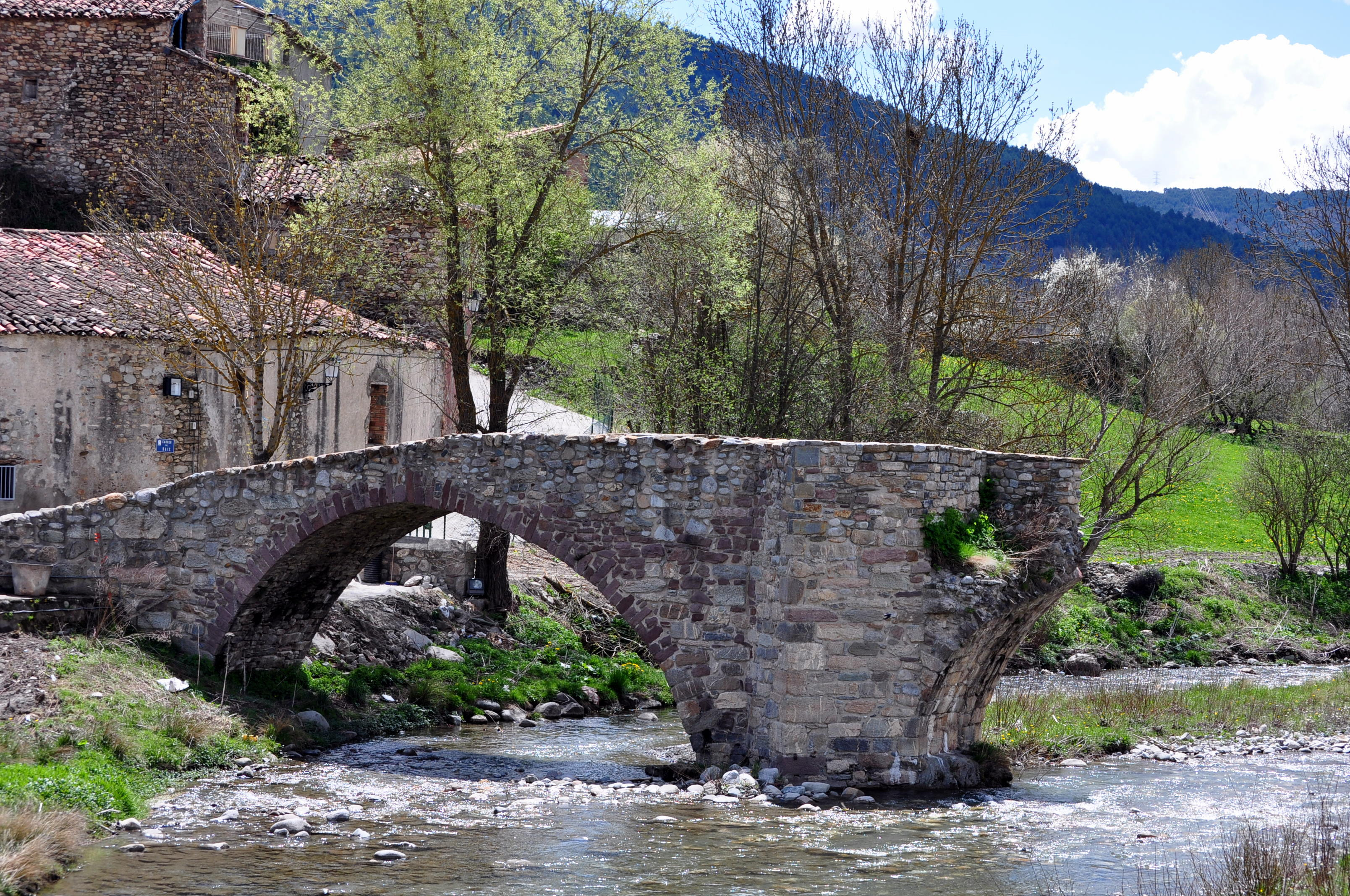 This are the remnants of the old bridge over the river Noguera Ribagorçana at Vilaller, destroyed by a flood in 1963